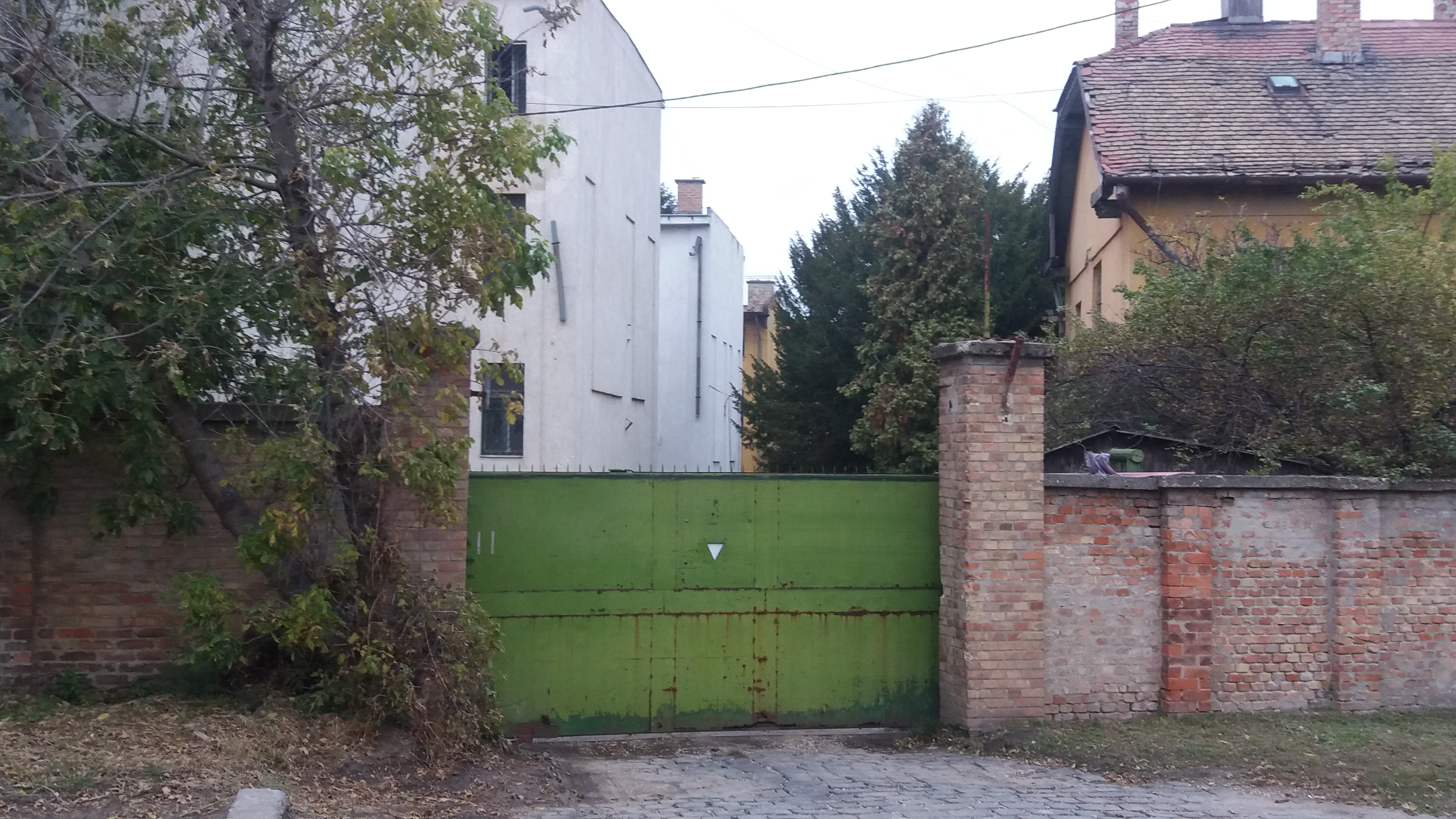 Main entrance of the internment camp (Kistarcsa)